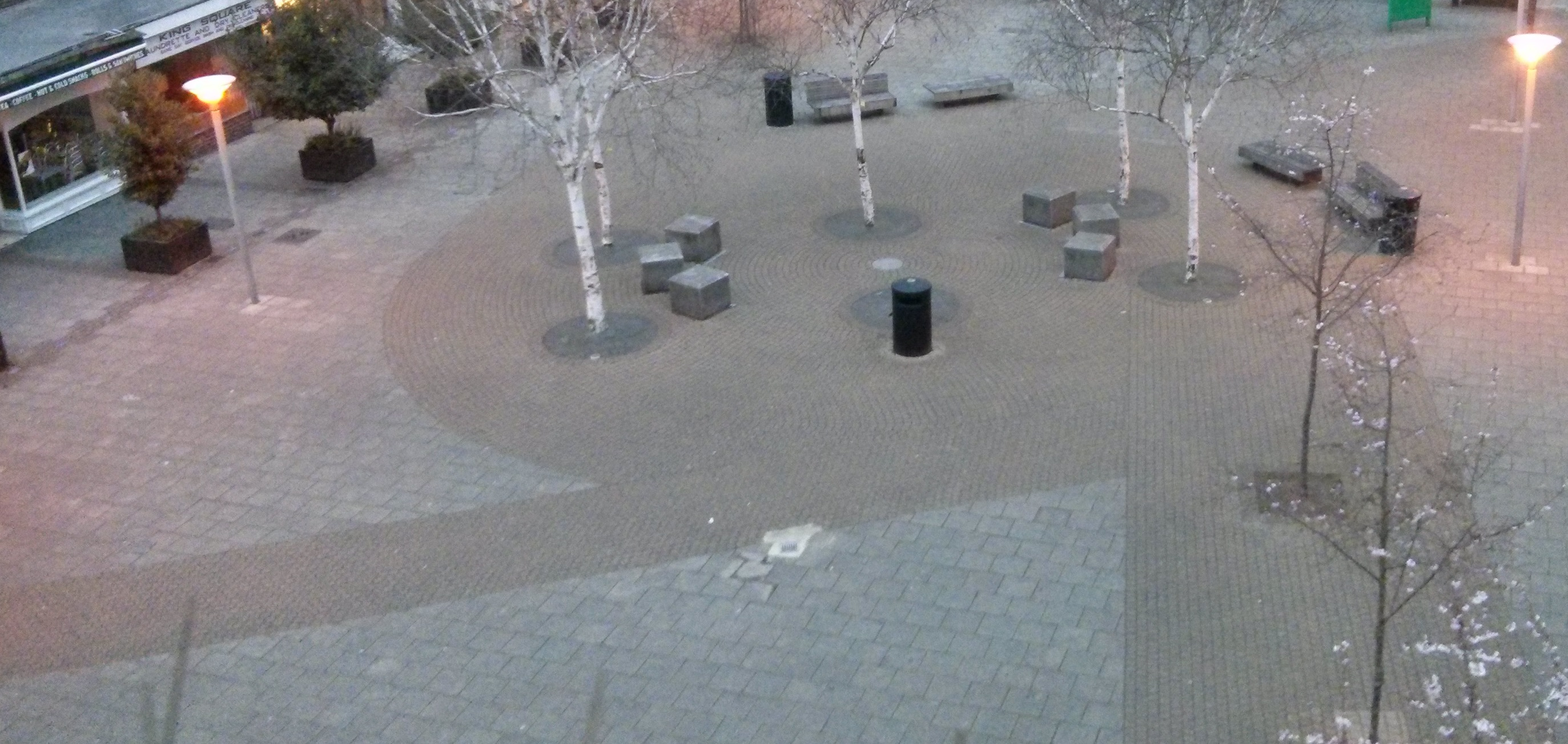 A view of King Square in London